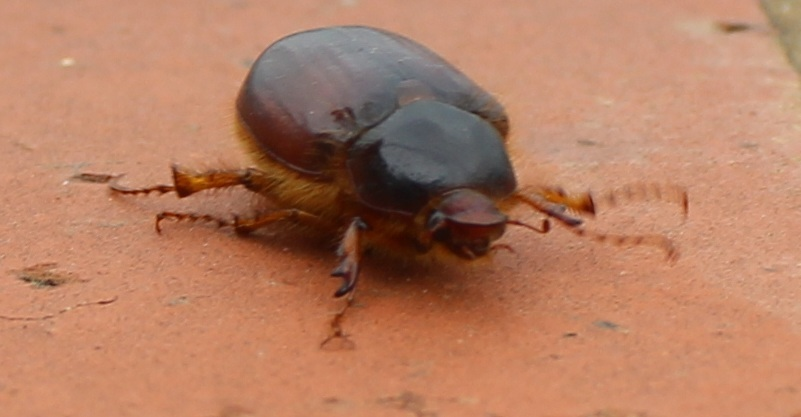 Clavipalpus ursinus. Species of insect.